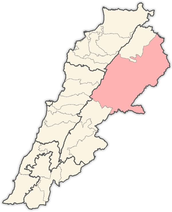 Map of districts in Lebanon, highlighting the Baalbek District